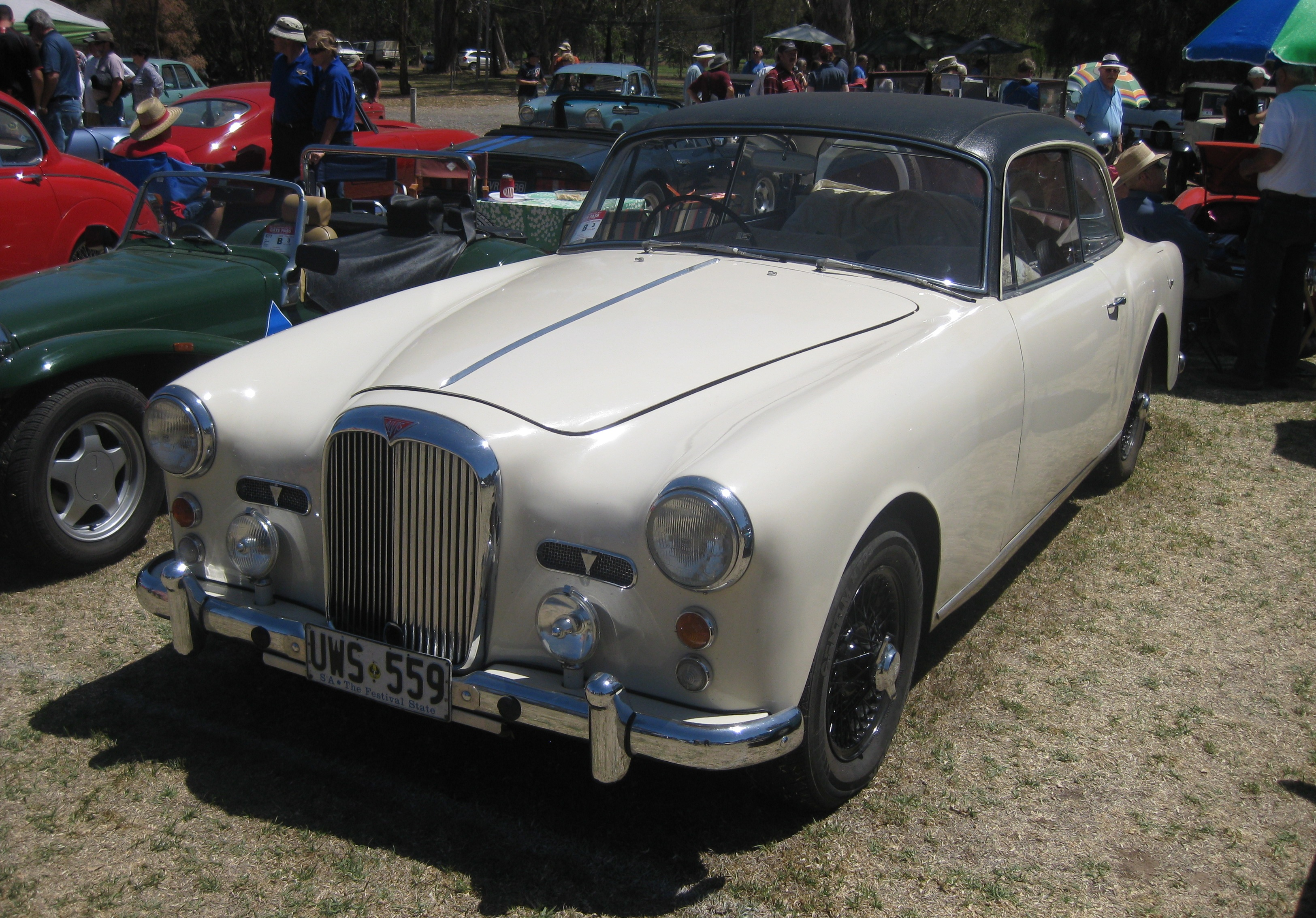 Alvis TD 21 2 door Saloon of 1961